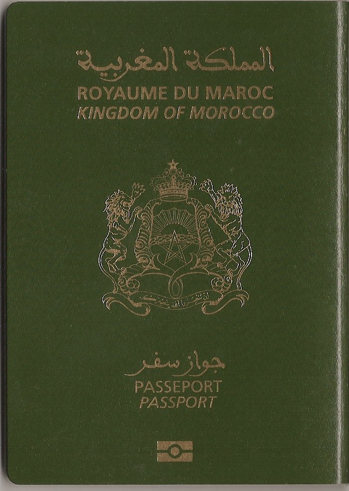 Moroccan Biometric Passport Cover